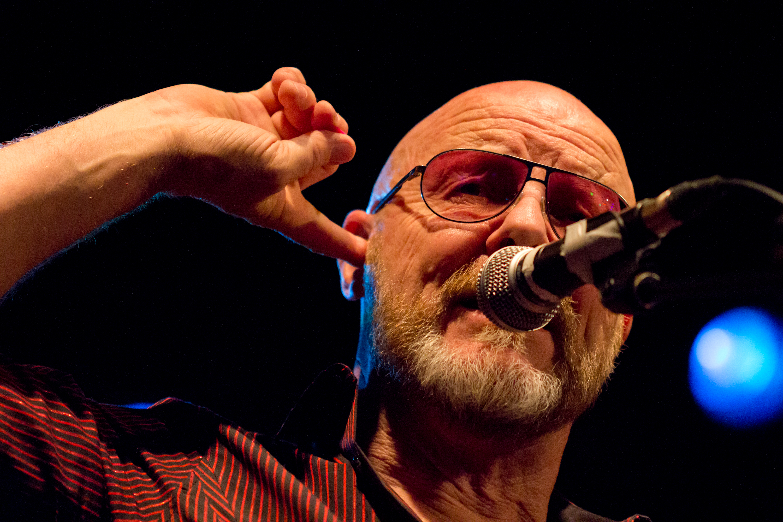 Rock band Wishbone Ash live in Madrid, Spain.